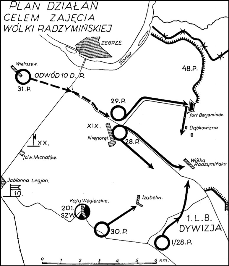 Battle for the Warsaw bridgehead. Action plan to capture Wólka Radzymińska. Sketch No. 58.